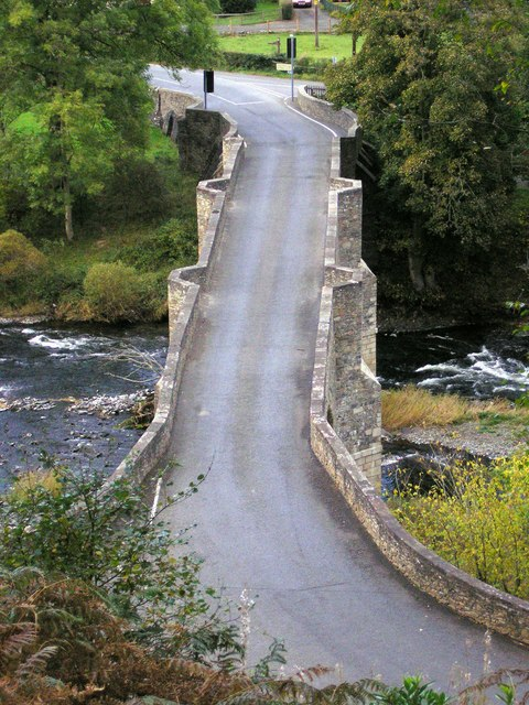 Looking North onto the Yair Bridge